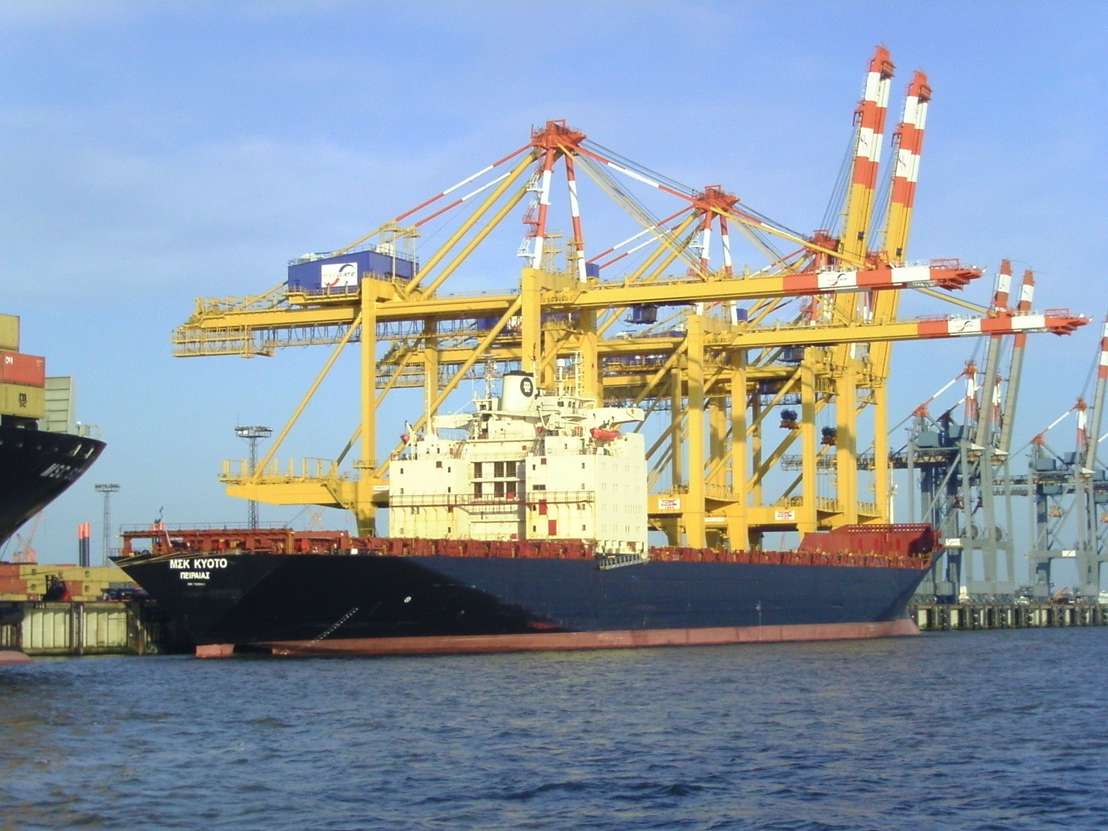 Rear view of the container ship MSC Kyoto at the container terminal of Bremerhaven in Germany